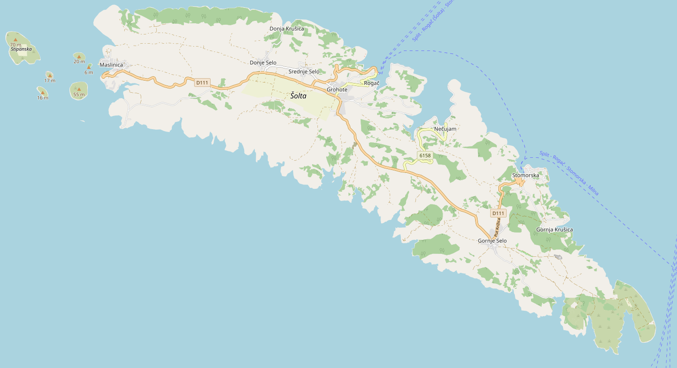 This map may be incomplete, and may contain errors. Don't rely solely on it for navigation.